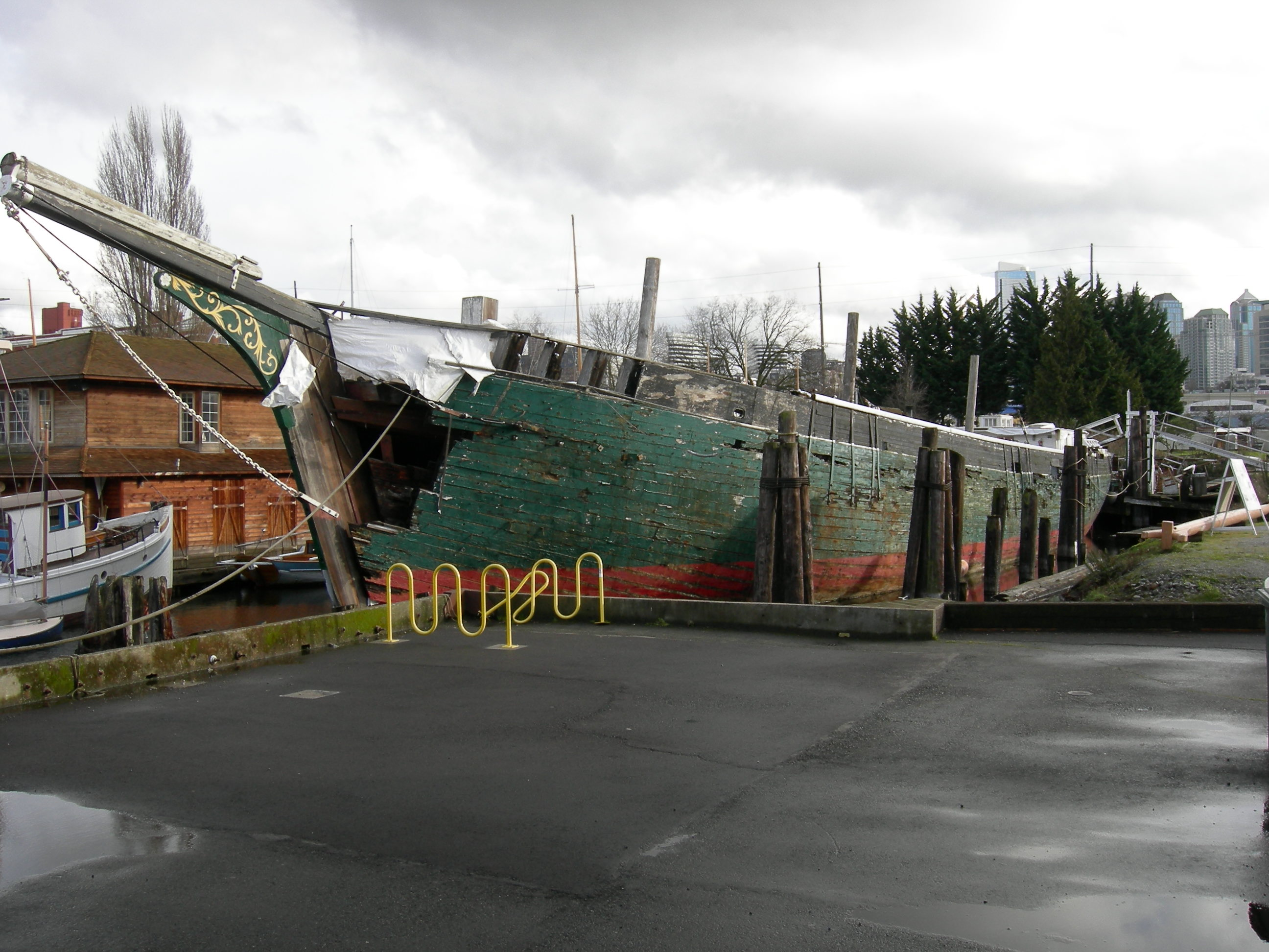 The Schooner Wawona, Northwest Seaport, Seattle, Washington. The boat is on the National Register of Historic Places. In the background is the Center for Wooden Boats, adjacent to Northwest Seaport. Also, in foreground, a rather unusual bicycle rack.